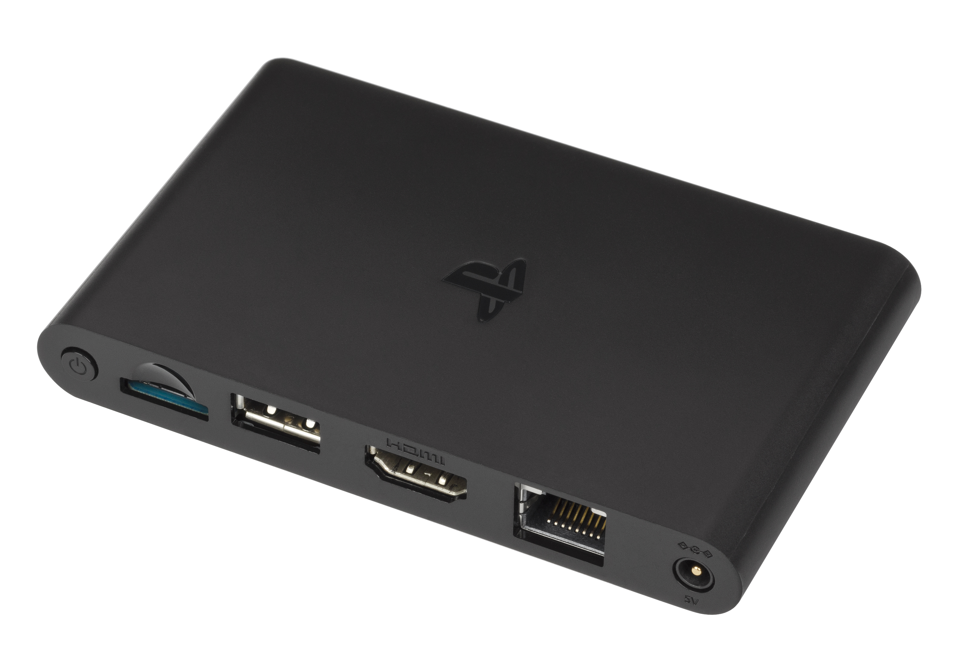 The PlayStation TV, a microconsole released by Sony in North America in 2014. The PlayStation TV (model VTE-1001) is a very small system made from the same internals as the PlayStation Vita handheld, and provides a way to play select Vita, PSP and PS One games on a television. The console can also be used to stream content from a PlayStation 4 system for remote play. Users can use either a DualShock 3 or DualShock 4 controller. This is the back of the console. Ports and inputs from left to right: Power button, memory card slot, USB port, HDMI port, LAN port and 5V DC in.